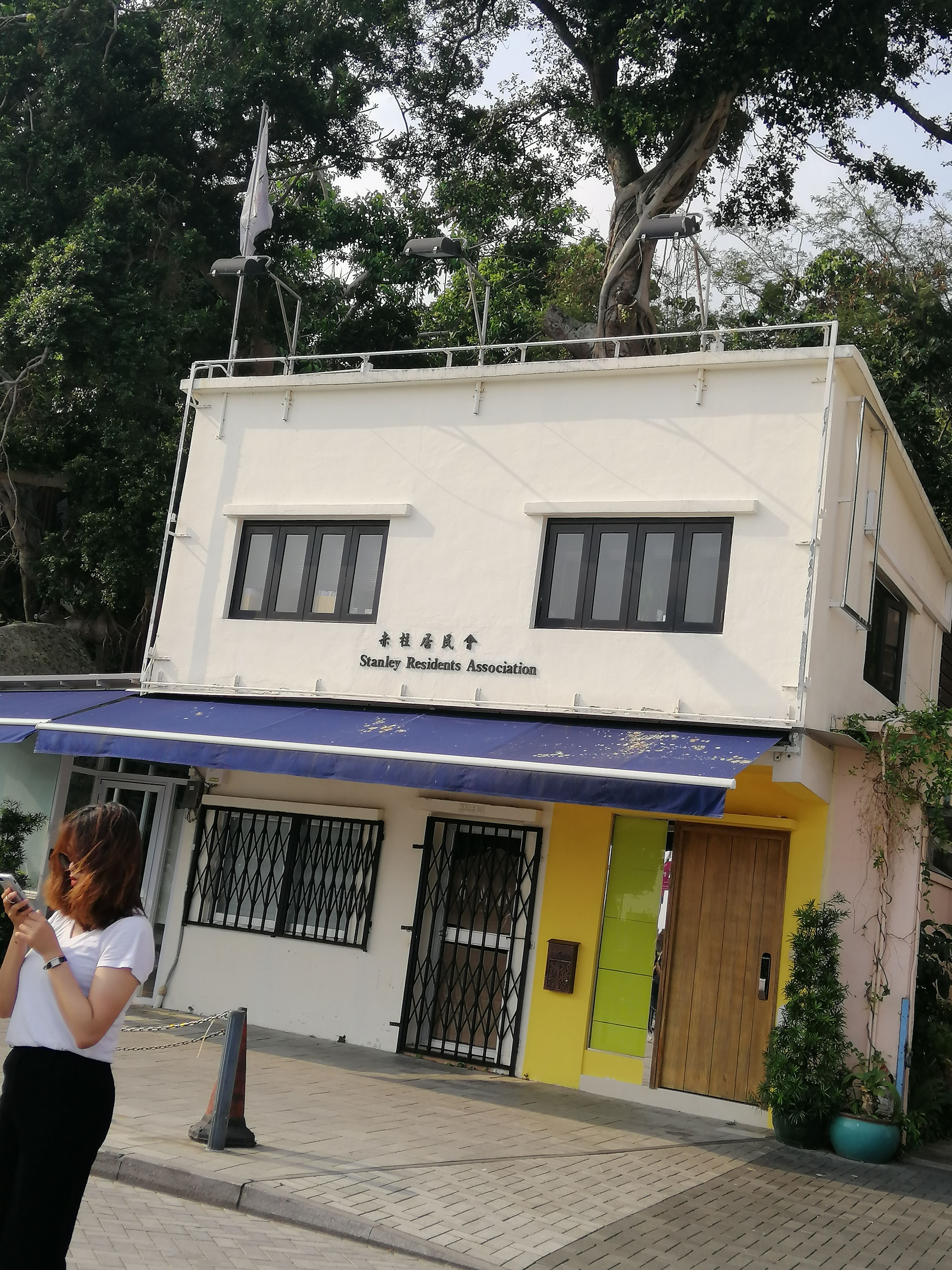 stanley building